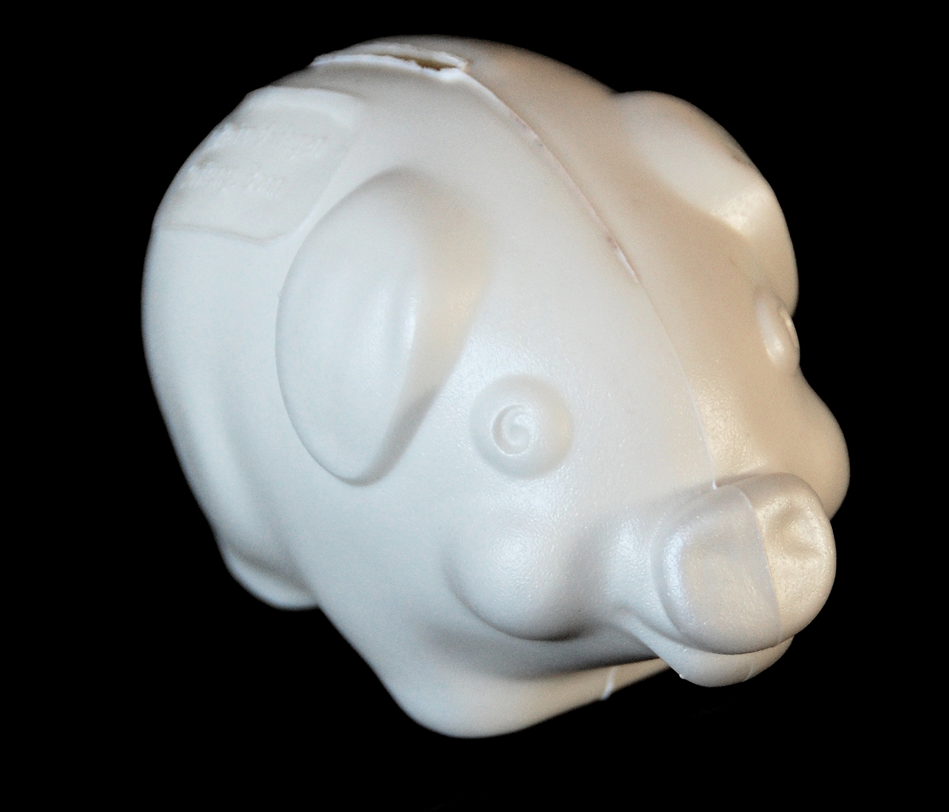 Piggy bank made by polylactide blend Bio-Flex